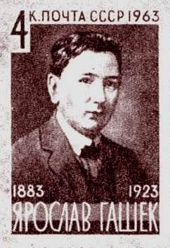 Sowjet stamp of 1963, showing Jaroslav Hašek